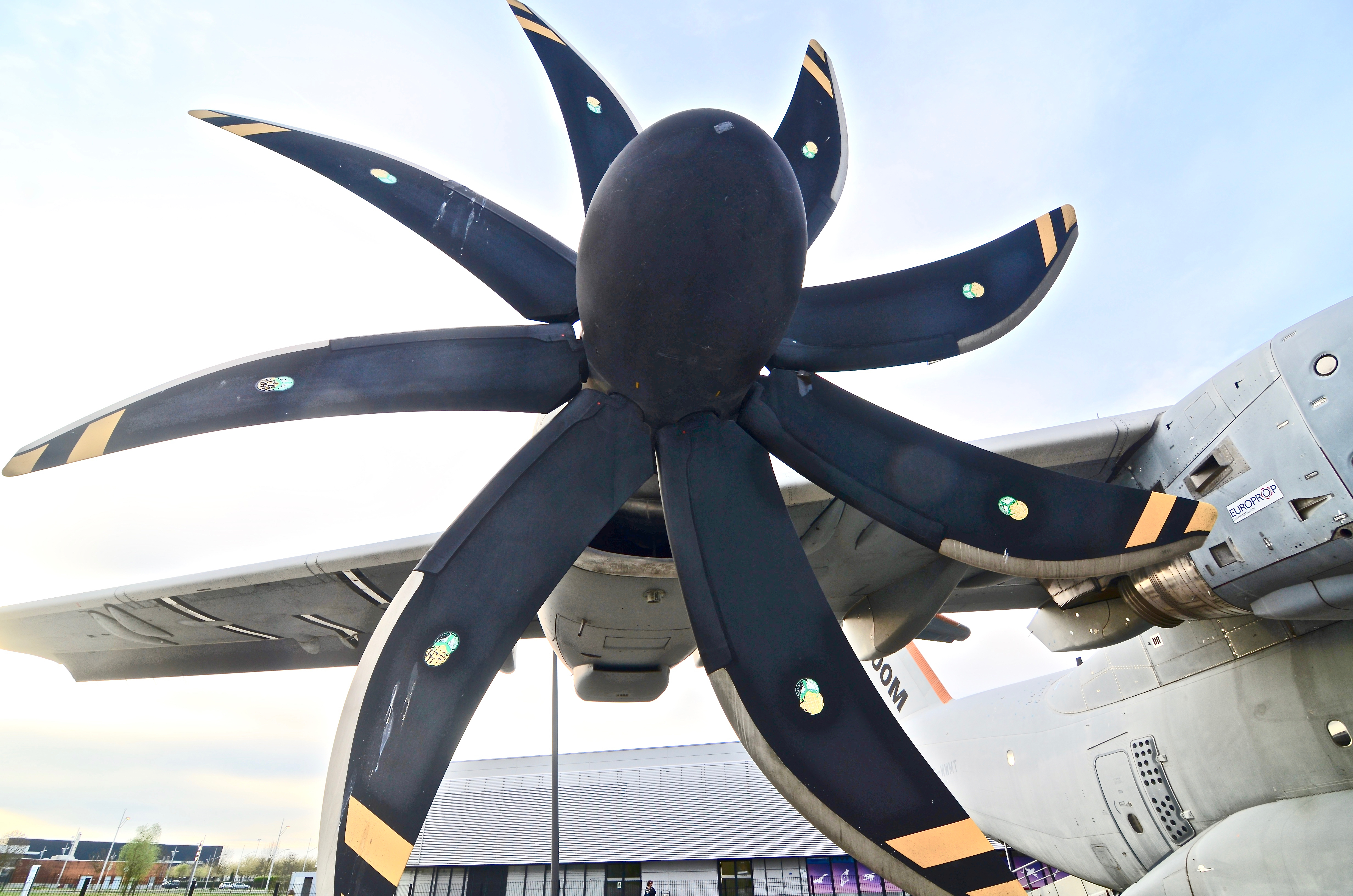 A Europrop TP400 propeller engine on an Airbus A400M military transport aircraft.